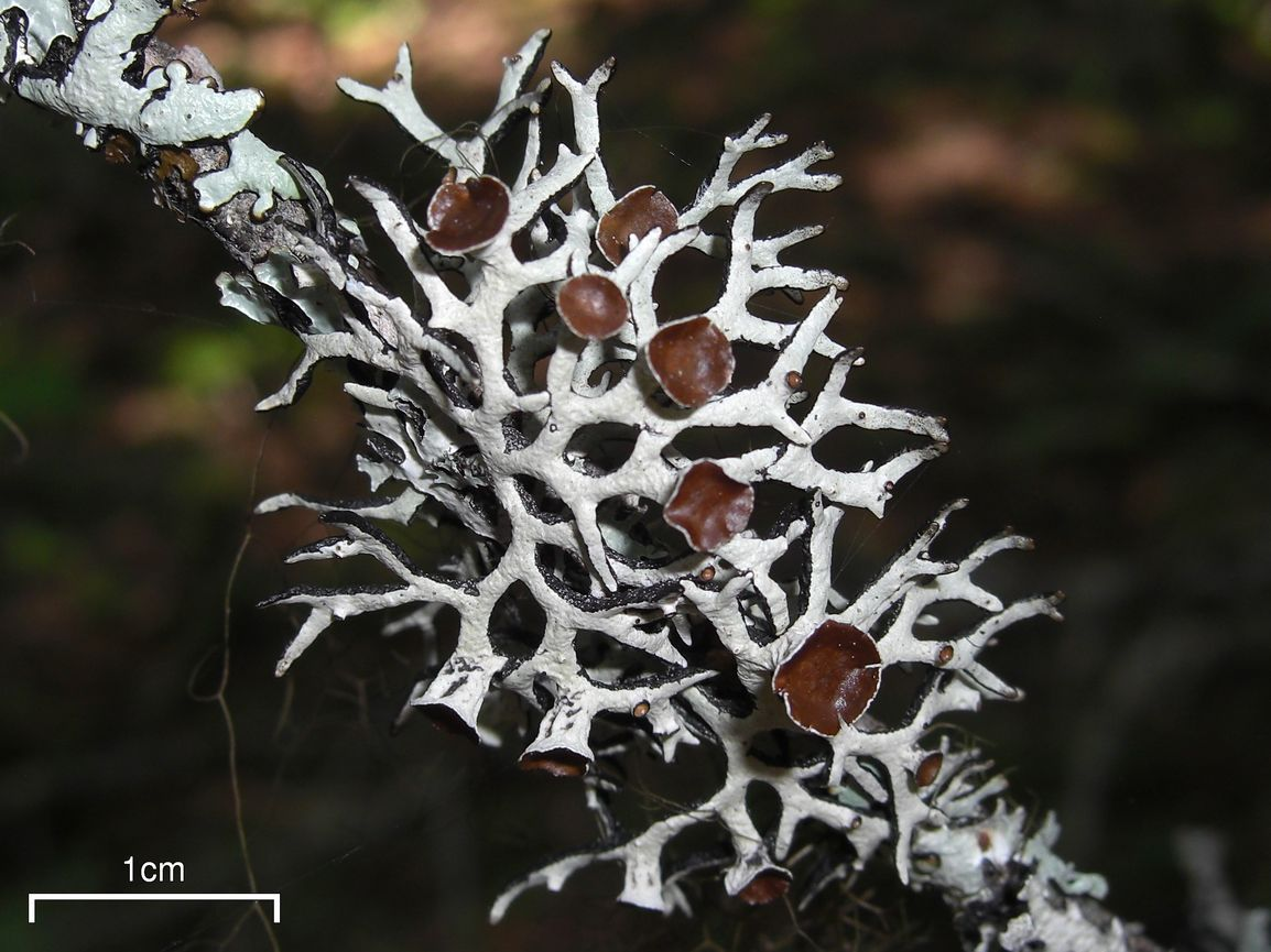 Hypogymnia imshaugii Krog 20090729.3 Battle Mountain, Wells Gray Park, BC